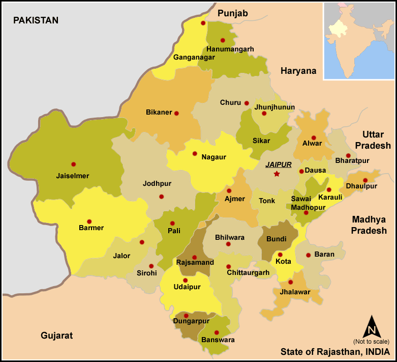 Map of Rajasthan state, India with districts in unique colors and city markers.